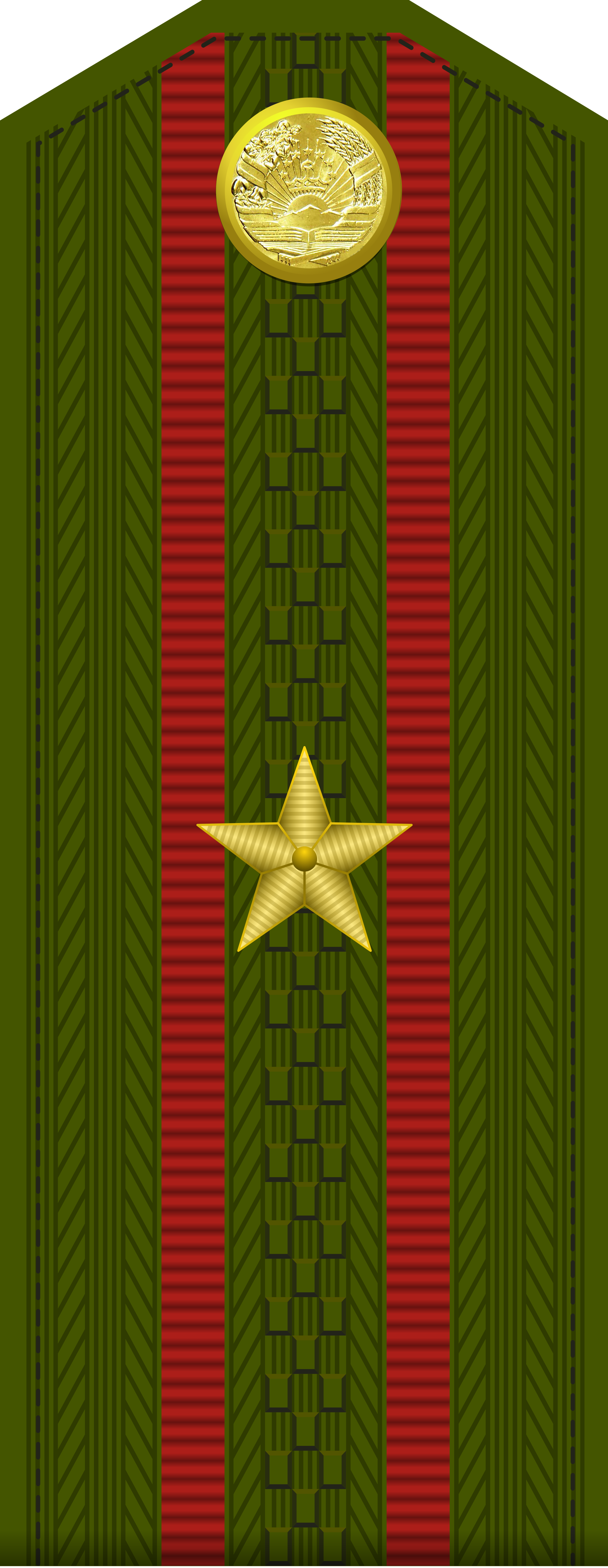 Тоҷикӣ: Rank insignia of Major for the Tajikistan Army